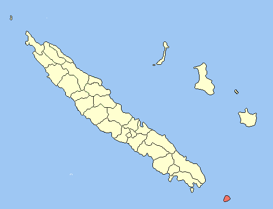 Created map myself.